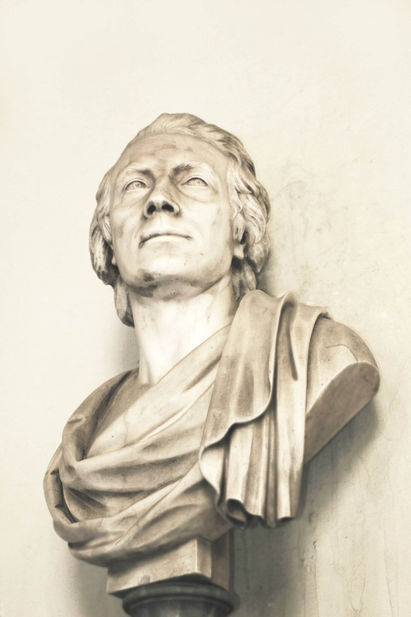 Joseph von Sonnenfels (*1733 in Nikolsburg, Moravia, + 25.04.1817 Vienna). The bust is located in the courtyard of the new University of Vienna (Wien 1, Universitätsring 1). The bust created the sculptor Alois Düll (* 28.06.1843, + 12.03.1900 Vienna).